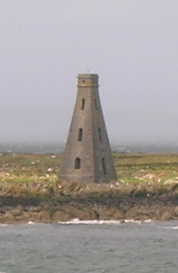 The lighthouse, beacon and marker building on Horse Island, North Ayrshire, Scotland.